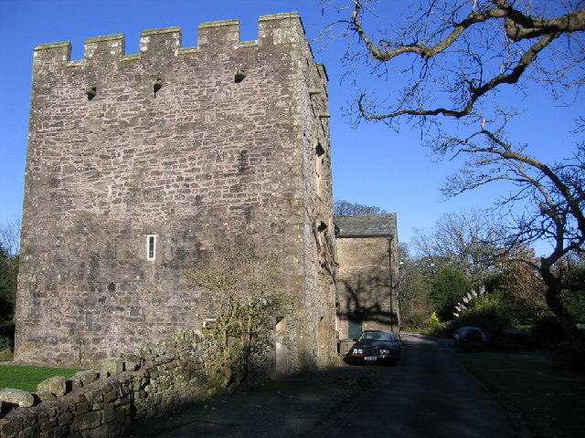 Branthwaite Hall. A very nice if big house.